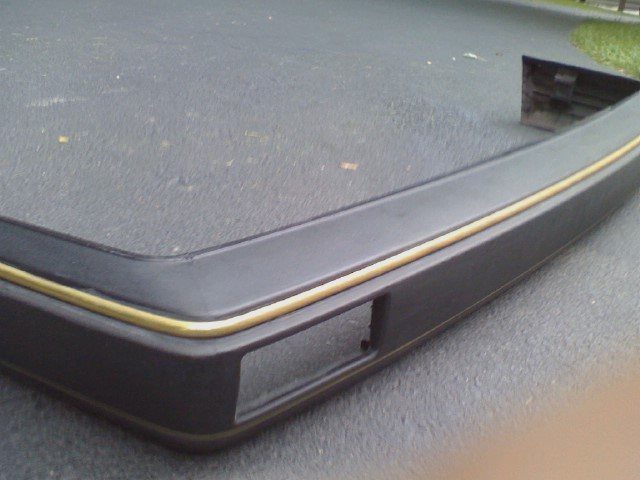 VW Jetta small bumper